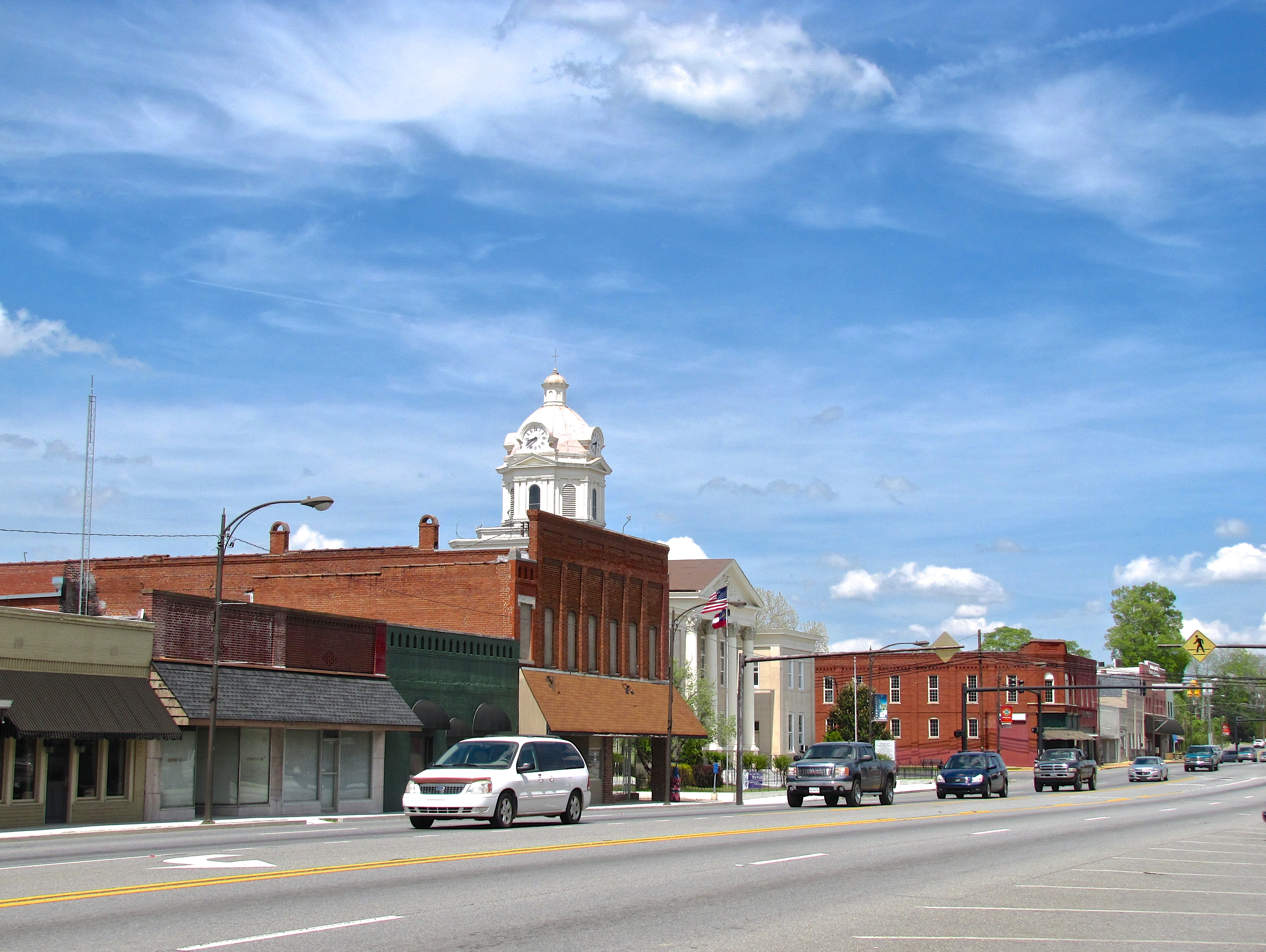 Buildings along Commerce Street (U.S. Route 27) in Summerville, Georgia, United States. The clock tower of the Chattooga County Courthouse rises left of center.